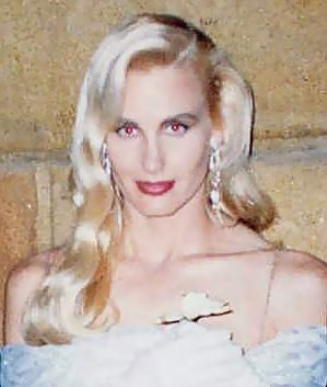 Daryl Hannah at the Academy Awards (cropped)